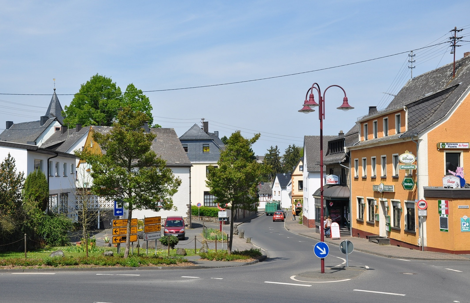 The cente of Kelberg, Rhineland-Palatinate (Eifel), Germany.